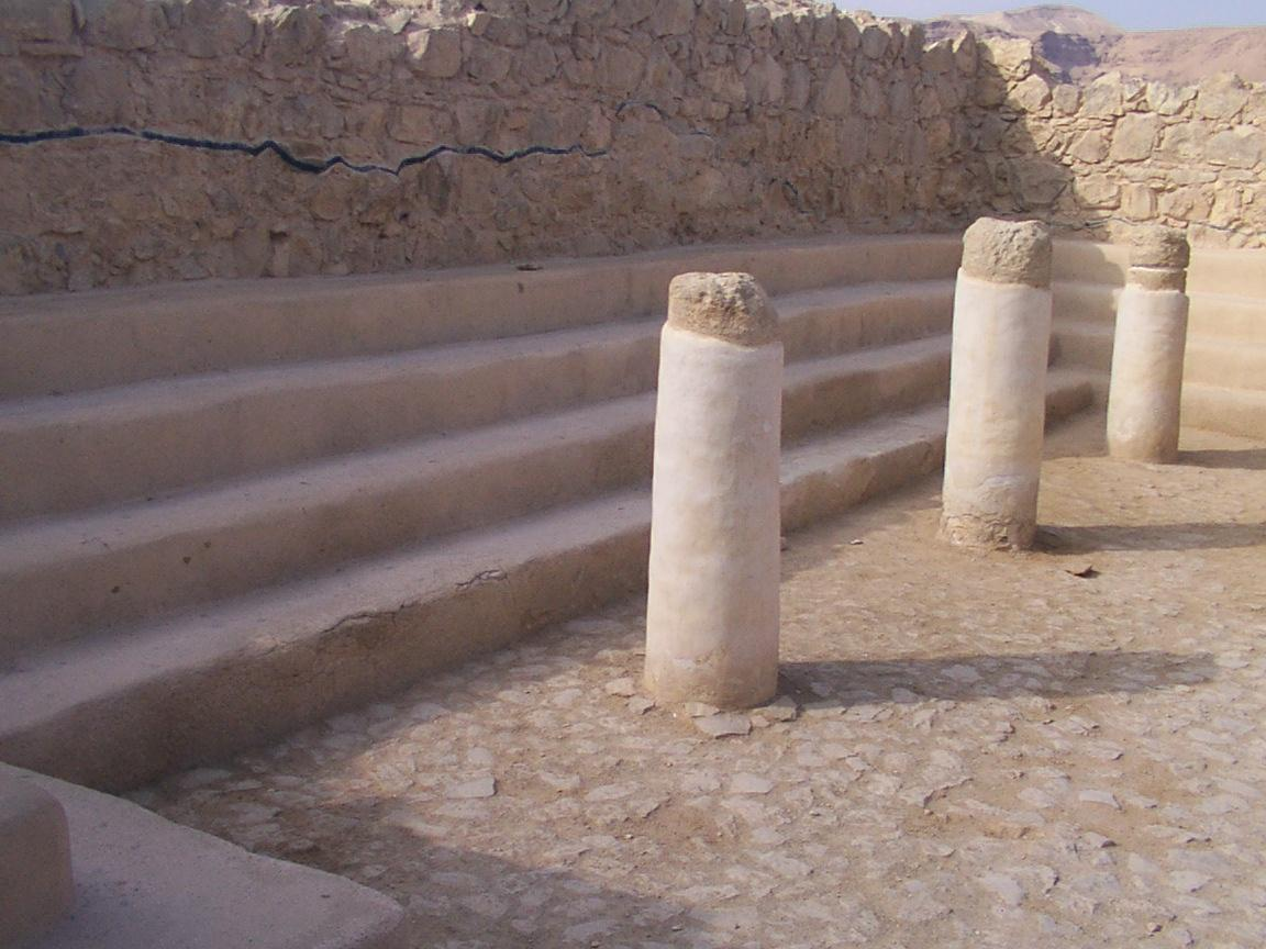 inside synagogue the sited three lines